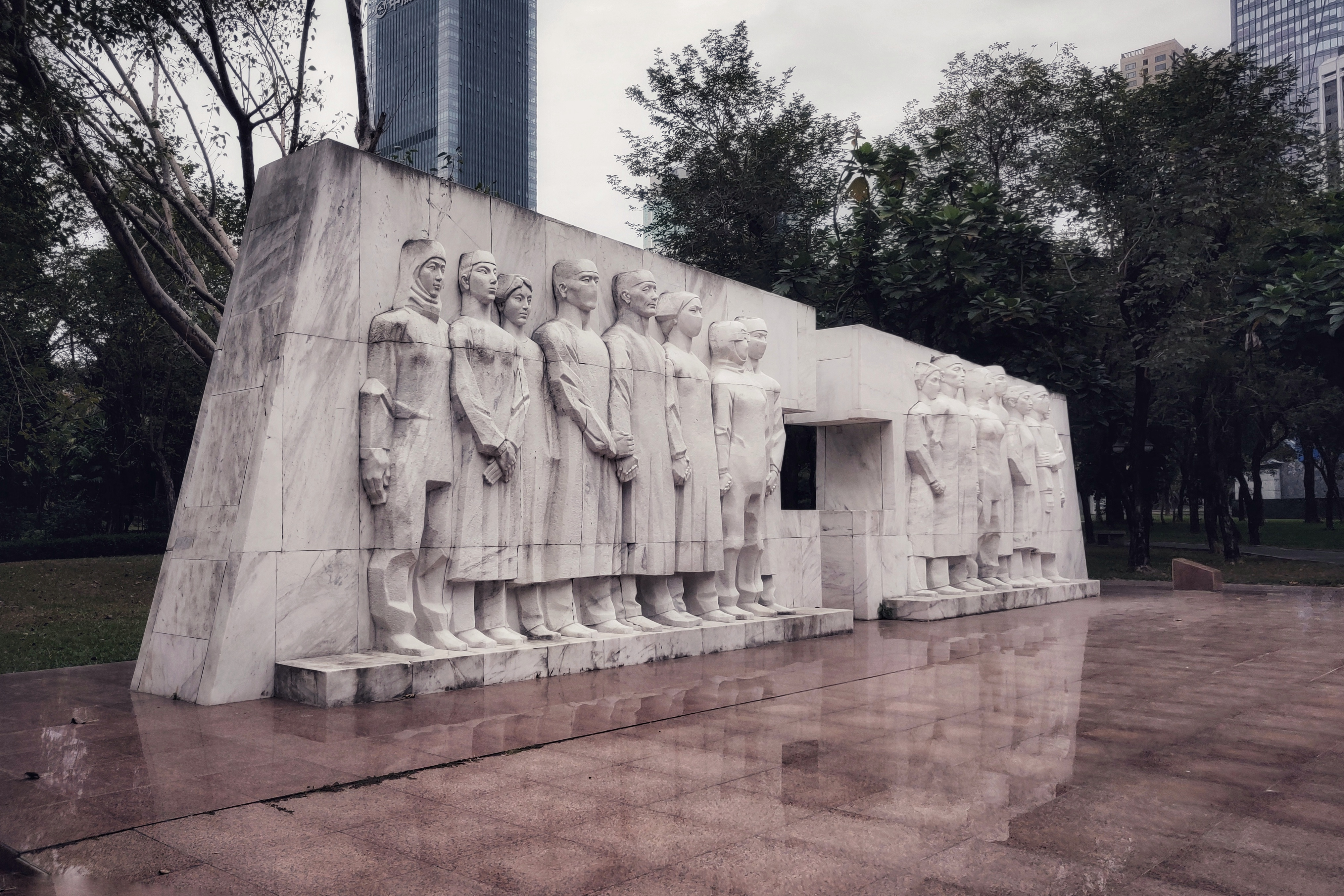 Status in Shenzhen Central Park in Memory of the Medical Staff During the SARS Outbreak